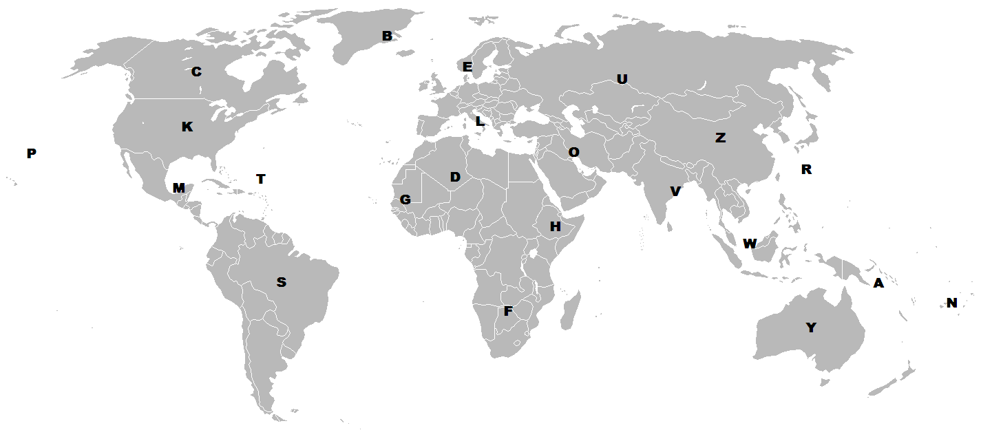 Map showing the regions of the world according to the first letter of the ICAO airport code.